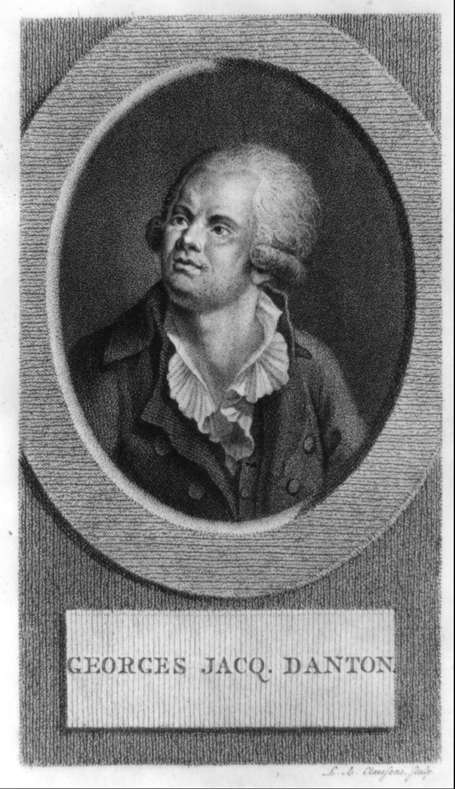 Title: Georges Jacques Danton, 1759-1794 Abstract/medium: 1 print : stipple engraving.